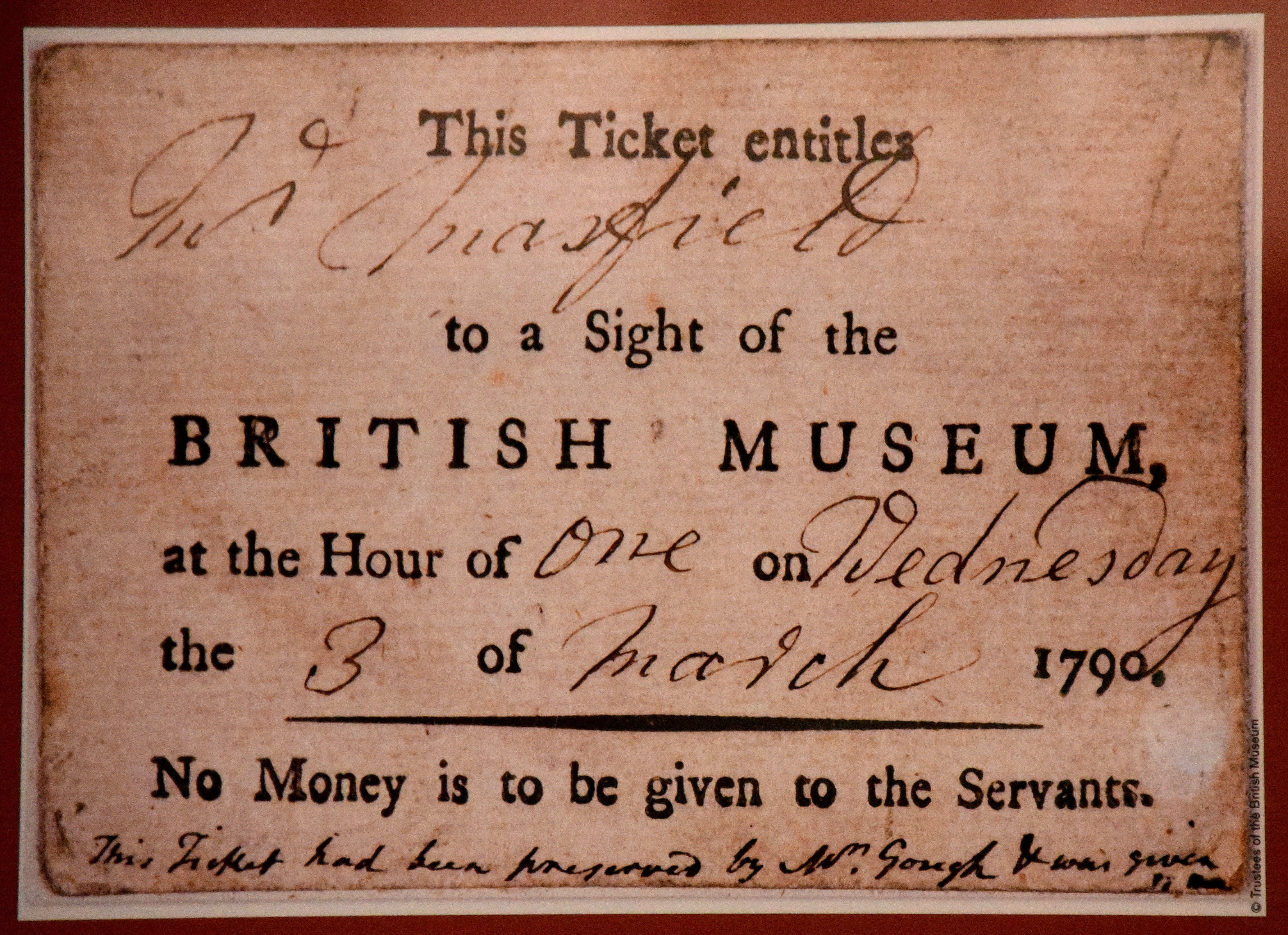 Entrance ticket to the British Museum, March 3, 1790. This photo of the ticket (©Trustees of the British Museum) is on display, in a case at the British Museum, London.